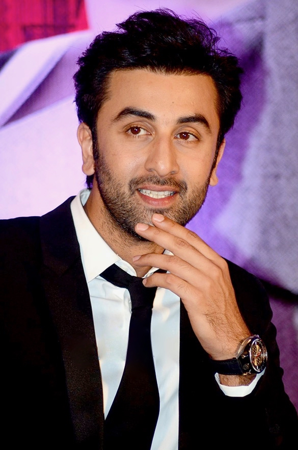 Ranbir Kapoor promoting Bombay Velvet in 2015